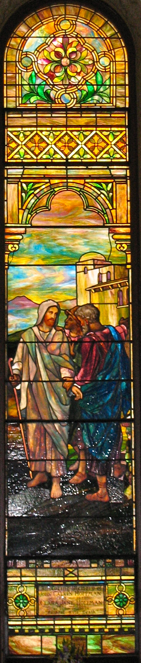 Zion Church's window "Emmaeus"